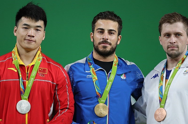 Weightlifting at the 2016 Summer Olympics. Weightlifter Kianoush Rostami (centre) Wins Olympic Gold for Iran at the 2016 Summer Olympics.